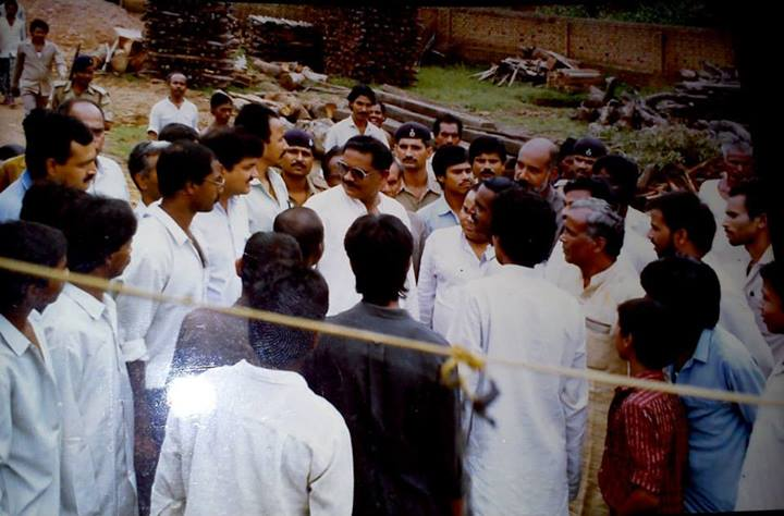 RAMDEO SINGH YADAV